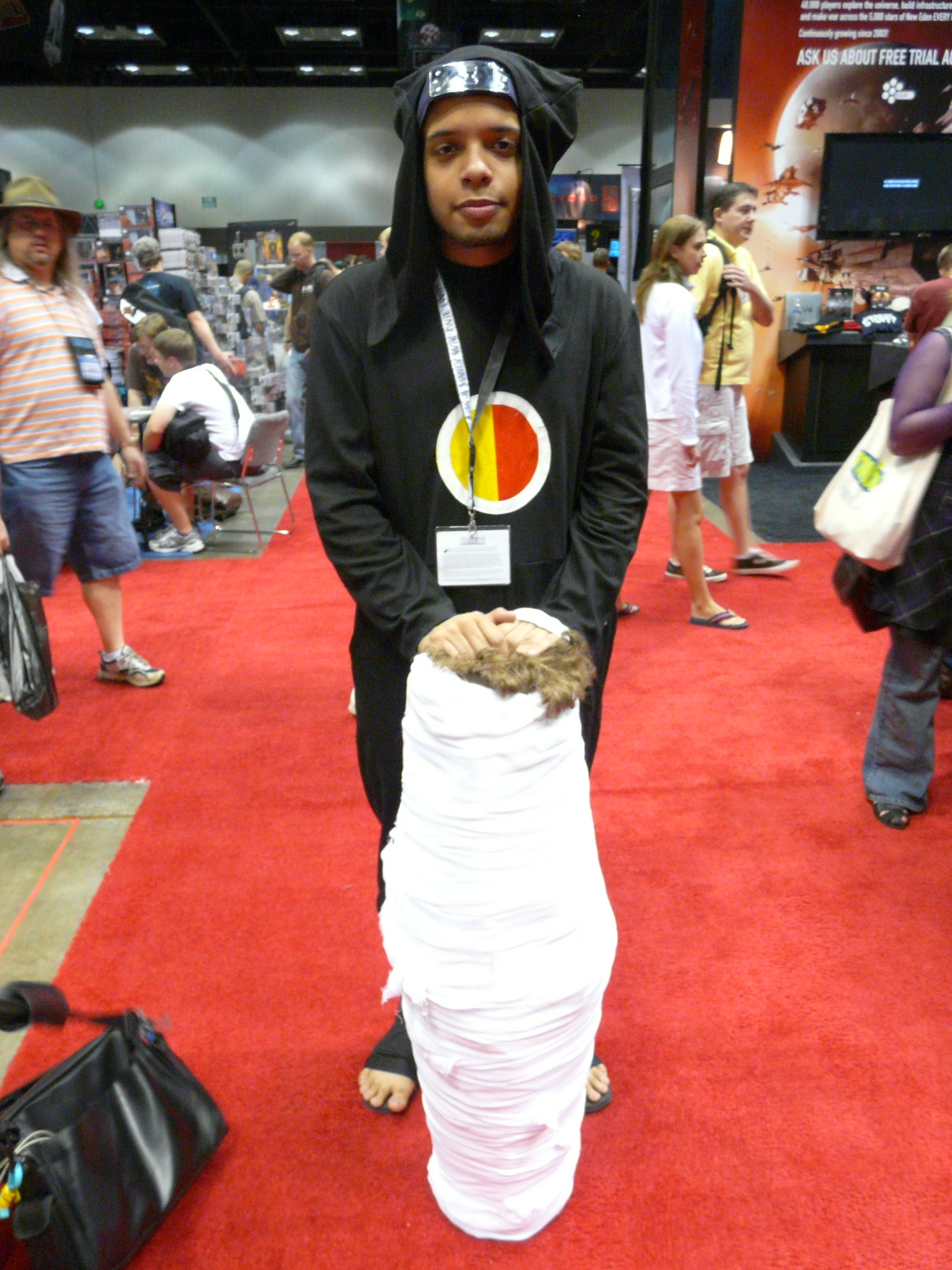 Picture of Gen Con Indy 2008 in Indianapolis, Indiana, USA.